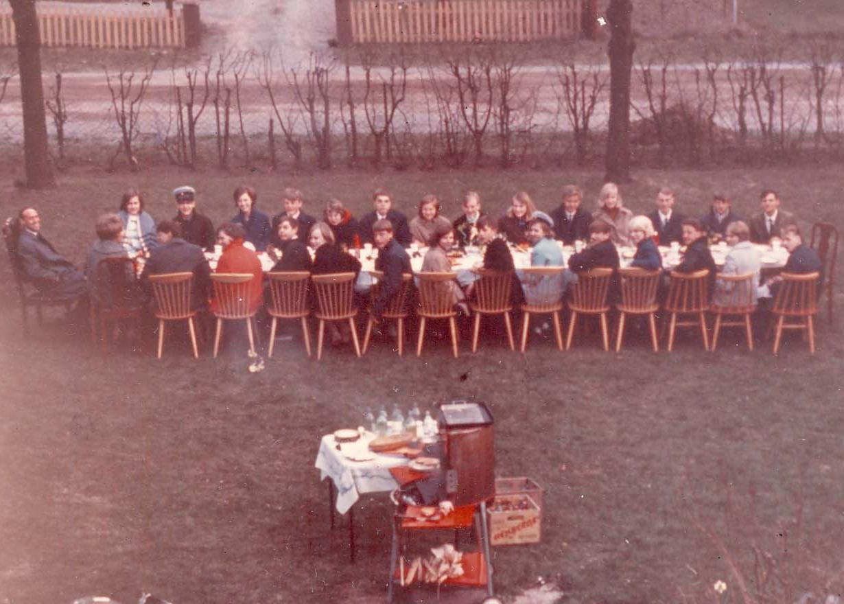 Lars Ridderstedt II graduation party RealexamenPlace: Granbacksvägen 5, Danderyd, Sweden